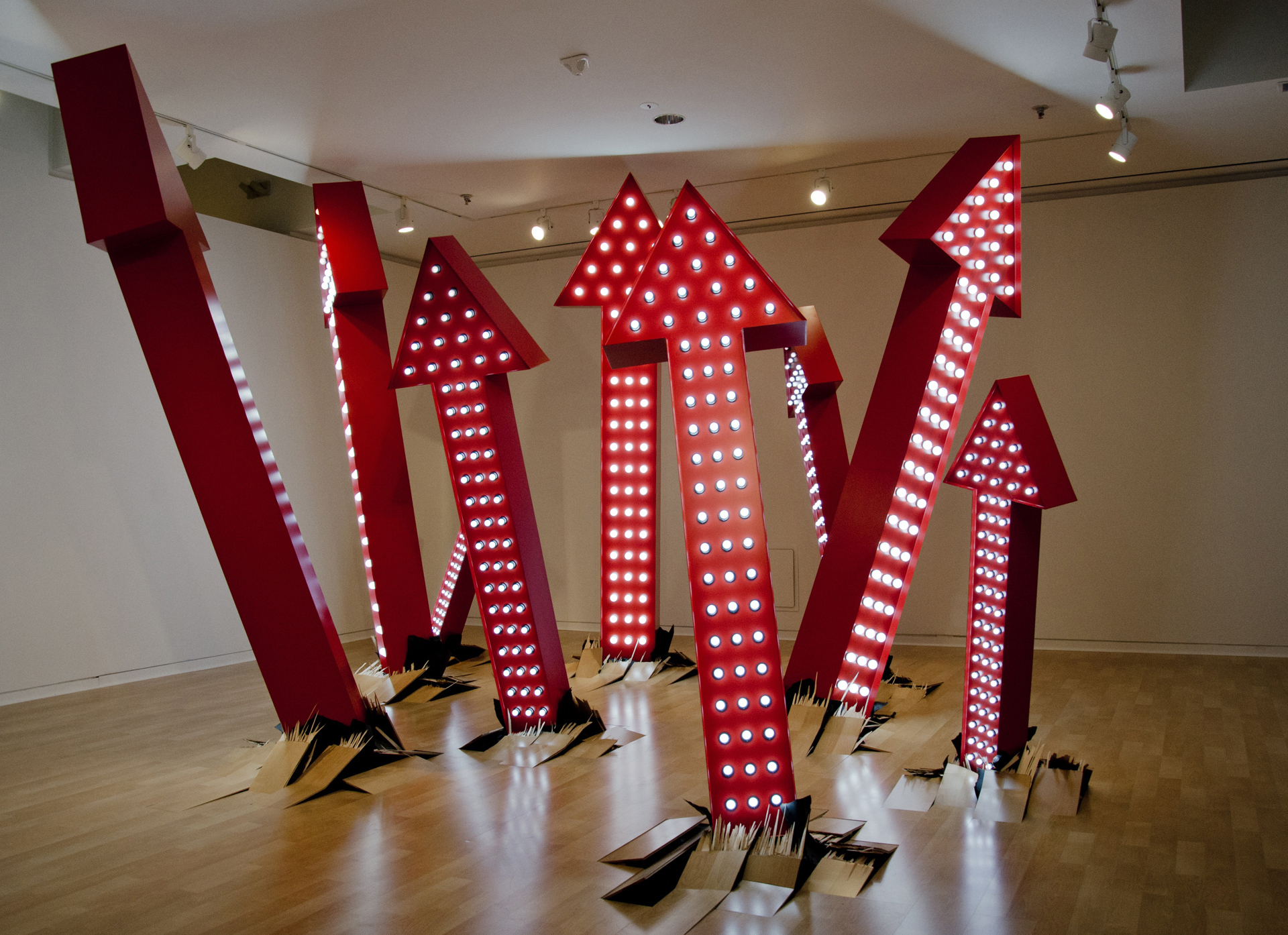 You Always Leave Me Wanting More addresses the sustainability of growth as it pertains to aspects of our personal, social and natural environments. The artists have co-opted the denuded language of commercial signs, incorporating casino style way-finders that tear through the floors of the museum with skyward trajectory. 27½ x 33 ft. Commissioned and funded by the Frye Art Museum, 21c Museum Hotels, and the Frye Foundation